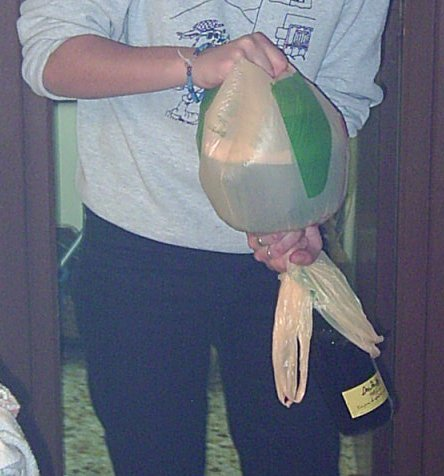 Mixing red wine and cola in a supermarket bag.